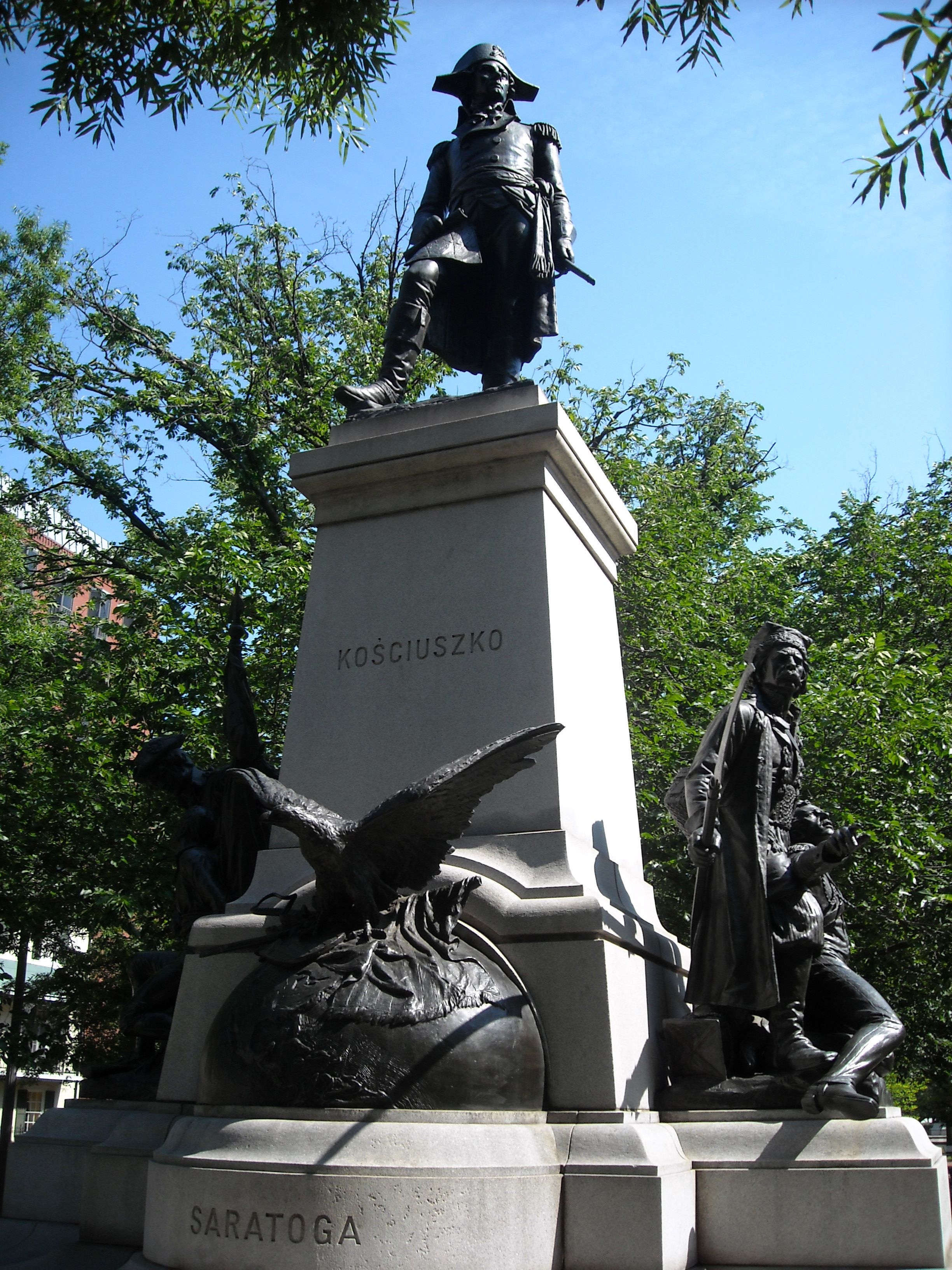 Kosciuszko statue in Lafayette Park, Washington, D.C. by Tadeusz Popiel (died 1910)